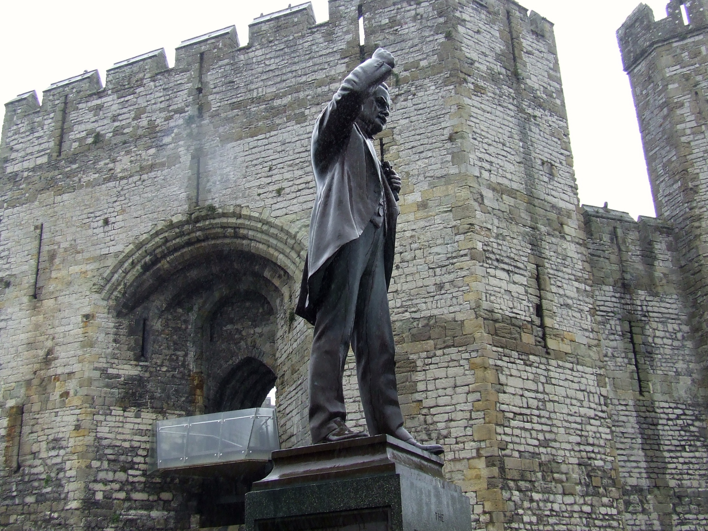 Grade II Listed statue of David Lloyd George MP at 7-8 Segontium Terrace, Caernarfon, opposite Caernarfon Castle